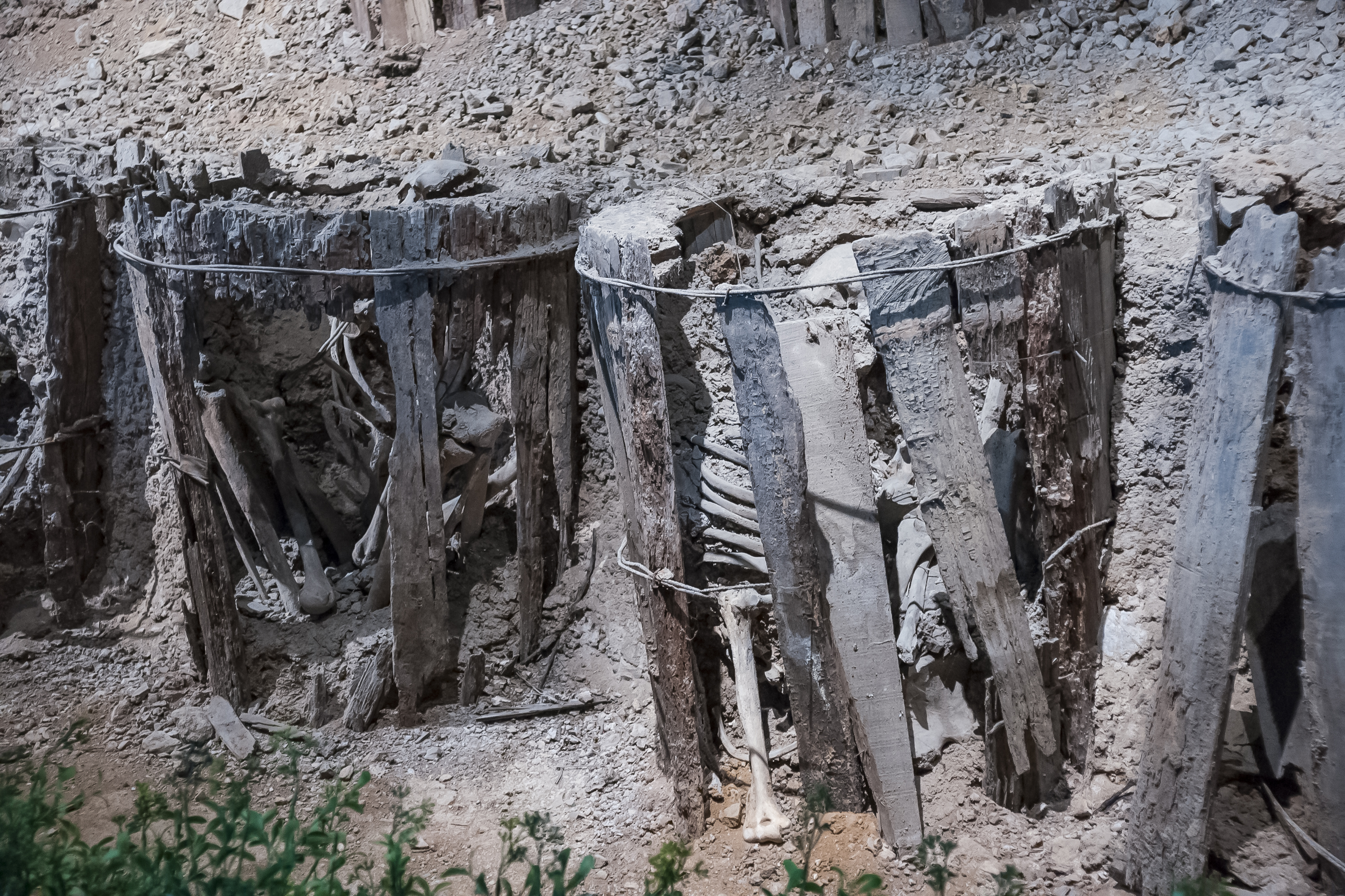 Lüshunkou, Liaoning, China: Former Russian-Japanese Lüshun Prison; after killing the prisoners, the bodies were put into those wooden barrels and hastily burried nearby. Although torture was omnipresent in the prison, those barrels were not used as an instrument of torture.